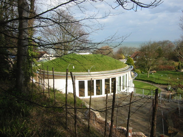 The "eco" venue at the Pines Garden An eco-friendly conference hall